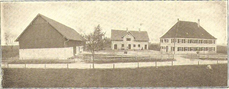 This is a scan of the document: Ludwig Mayr - Geschichte der Herrschaft Eisenburg (History of the Herrschaft Eisenburg)